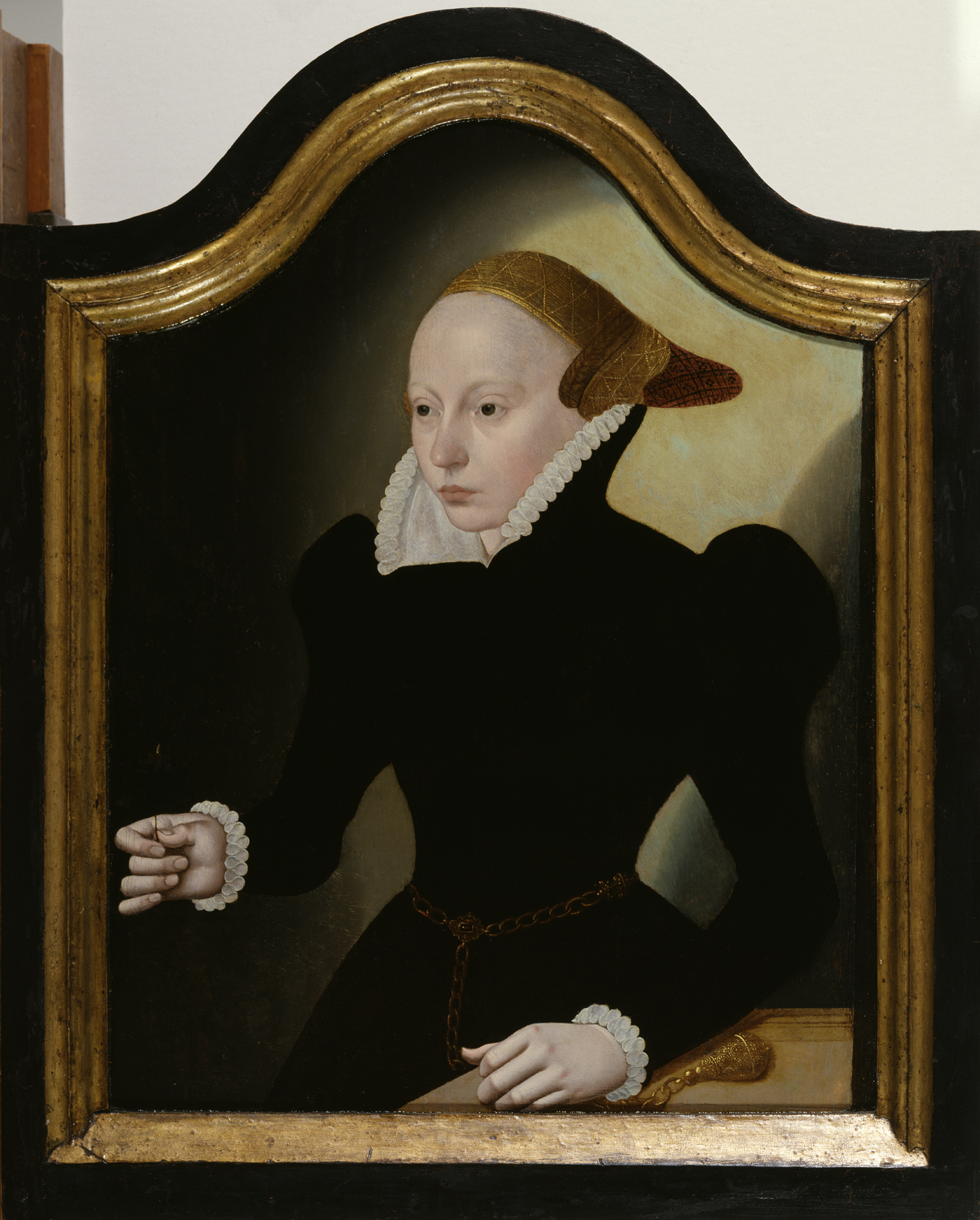 This young woman offers a pink (or dianthus, related to the carnation) to someone on her right, probably her betrothed. The sweet-smelling pink symbolized a young woman's hopes for marriage. At her waist is a gold girdle, or belt, from which hangs a pomander, a pierced container for sweet-smelling herbs to combat the foul smells of crowded cities. Bruyn was a portraitist to the prosperous merchants of Cologne, Germany.